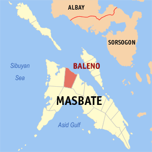 Map of Masbate showing the location of Baleno